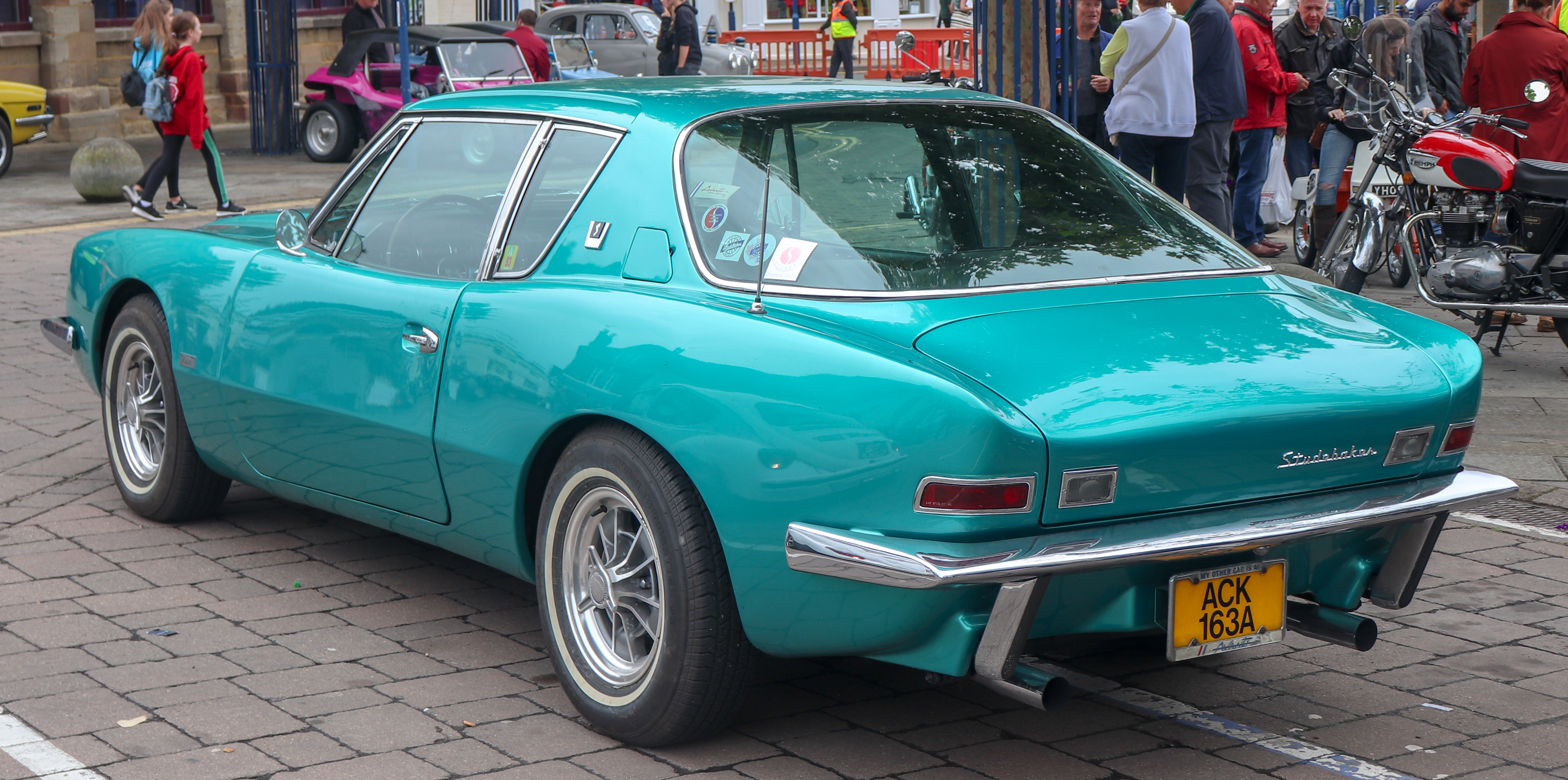 1963 Studebaker Avanti 4.7 Rear Taken at the 2018 Warwick Classic Car Show